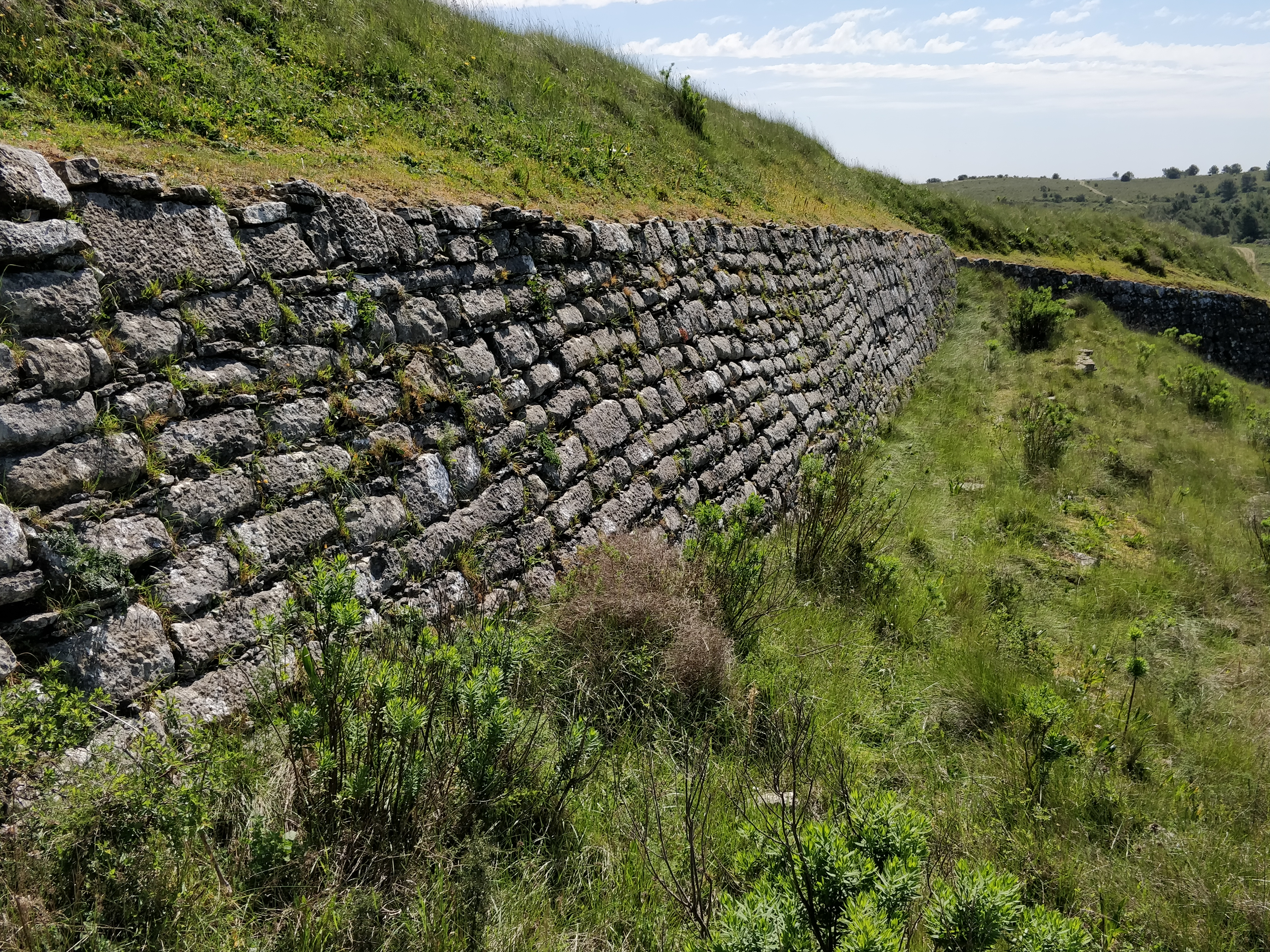 View of the fort of Portela Grande showing the stonework.